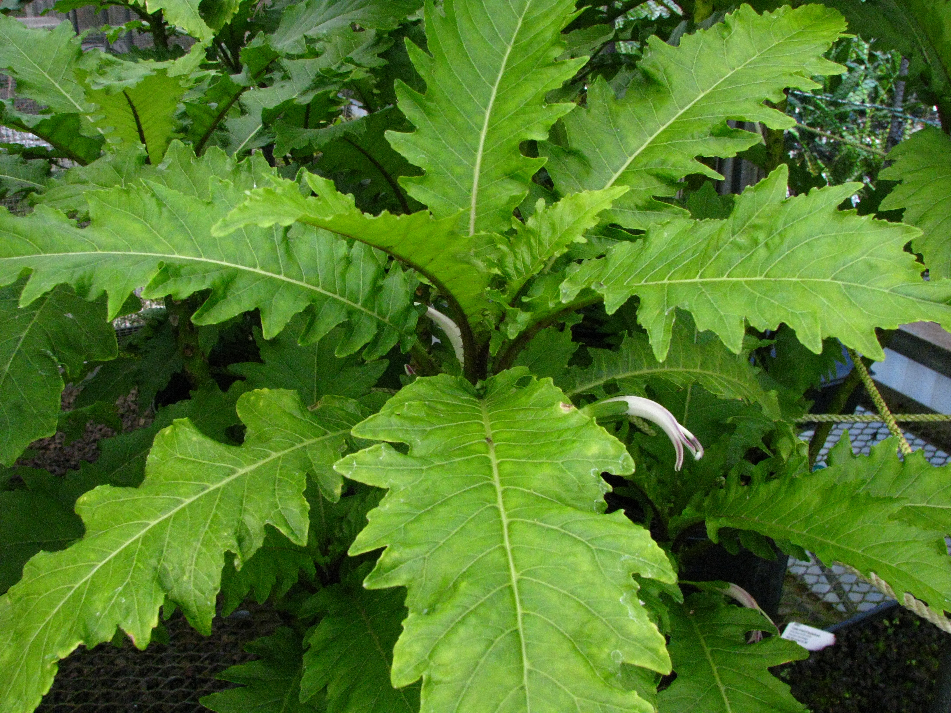 Hāhā Campanulaceae Endemic to the Hawaiian Islands (West Maui only) Very rare and endangered Kauaʻi (Cultivated)